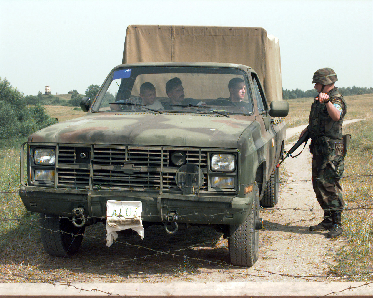 A Lithuanian soldier directs a role player to move their M1008 1 1/4 ton cargo truck into the check point to be searched for contraband during the field training phase of BALTIC CHALLENGE '98.